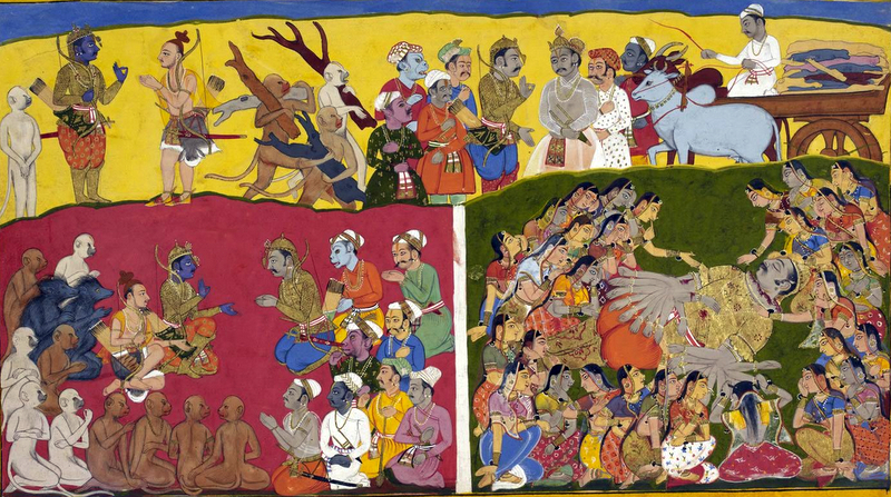 "Vibhisana was overcome with grief at the death of his brother Ravana, who despite his wickedness acted out his life in accordance with the dharma into which he was born. Rama on the left in full council instructs Vibhisana and the remaining demons to perform Ravana's funeral rites. Across the top of the picture the monkeys and demons gather the wood for the funeral pyre. On the right Ravana's body is surrounded by his lamenting wives headed by his chief wife Mandodari. The women express their grief with eloquent gestures. Sahib Din's expresses Mandodari's heartfelt lament for her dead husband and sons by placing her with her back to us as she unbraids her hair in the traditional gesture of the bereaved wife. The directional imperative from left to right has now ceased as Sahib Din reverts to a traditional dividing frame for his composition. "